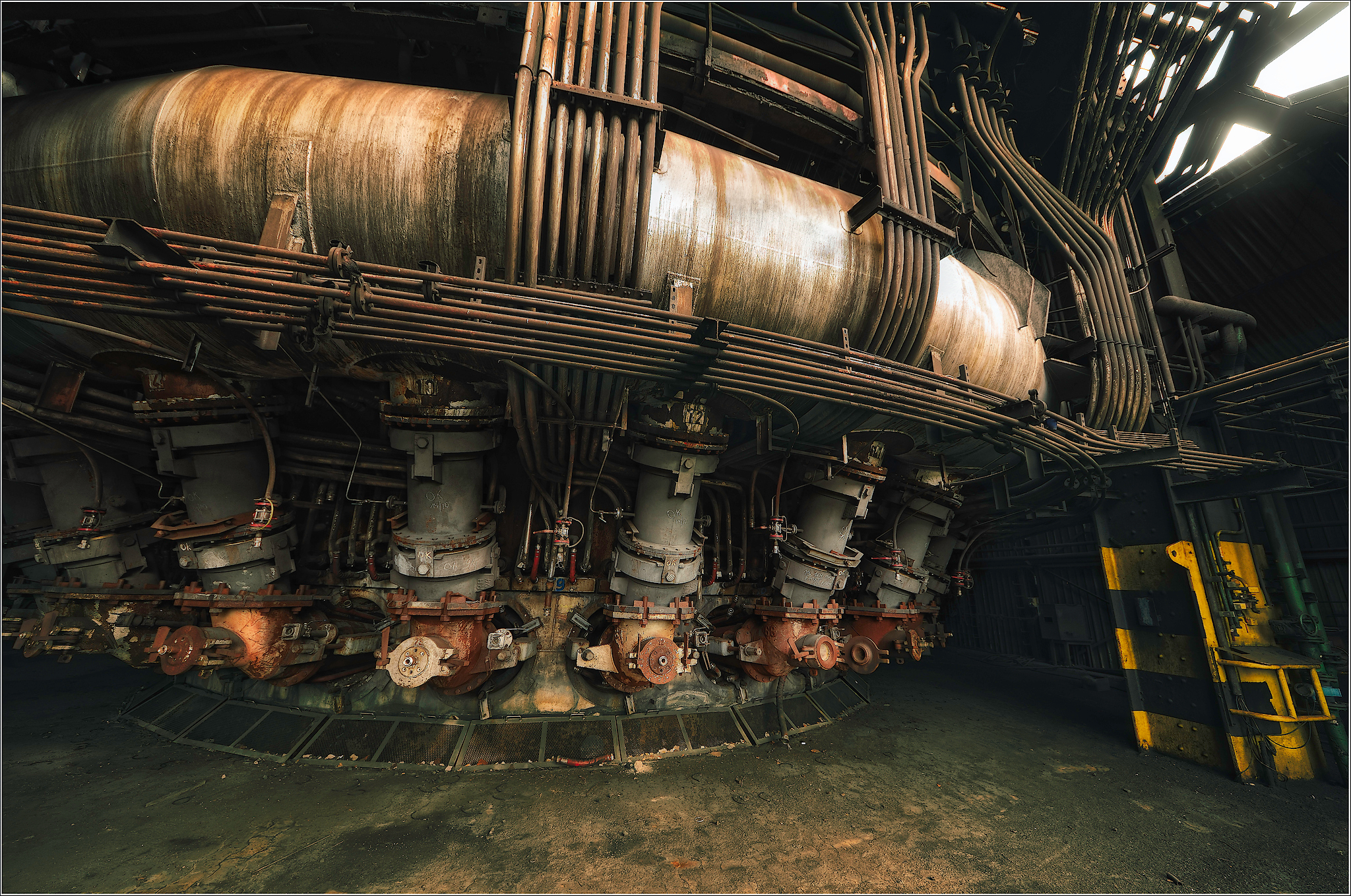 Blast furnace A blast furnace is a type of metallurgical furnace used for smelting to produce industrial metals, generally iron. In a blast furnace, fuel, ore, and flux (limestone) are continuously supplied through the top of the furnace, while air (sometimes with oxygen enrichment) is blown into the bottom of the chamber, so that the chemical reactions take place throughout the furnace as the material moves downward. The end products are usually molten metal and slag phases tapped from the bottom, and flue gases exiting from the top of the furnace. The downward flow of the ore and flux in contact with an upflow of hot, carbon monoxide-rich combustion gases is a countercurrent exchange process.